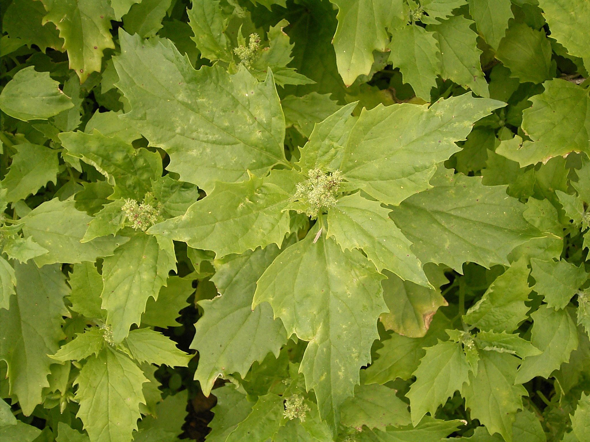 Chenopodium murale growing in La Fajana, Barlovento, La Palma, Canary Islands